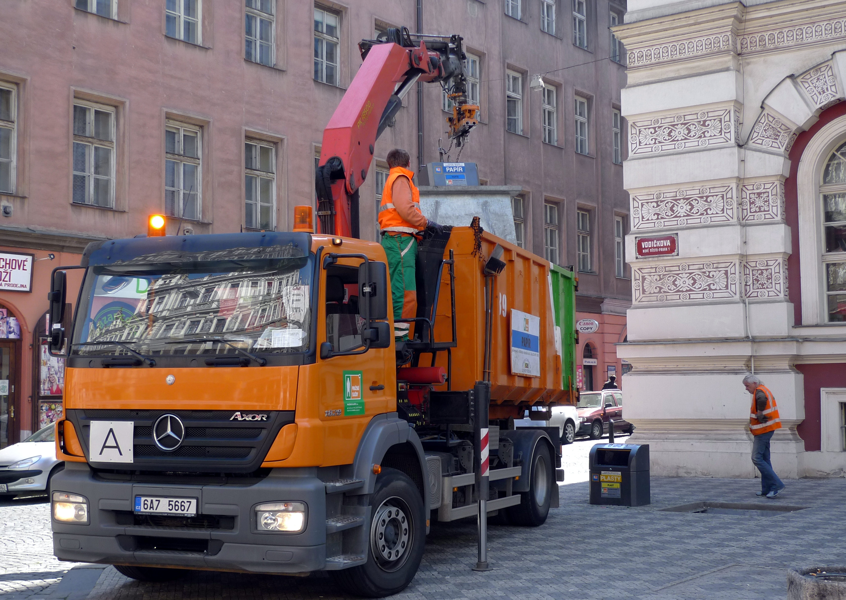 Underground trash waste collection truck in Prague